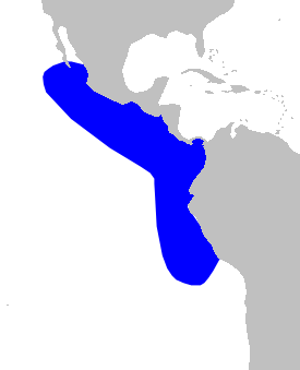 Distribution of Mesoplodon peruvianus